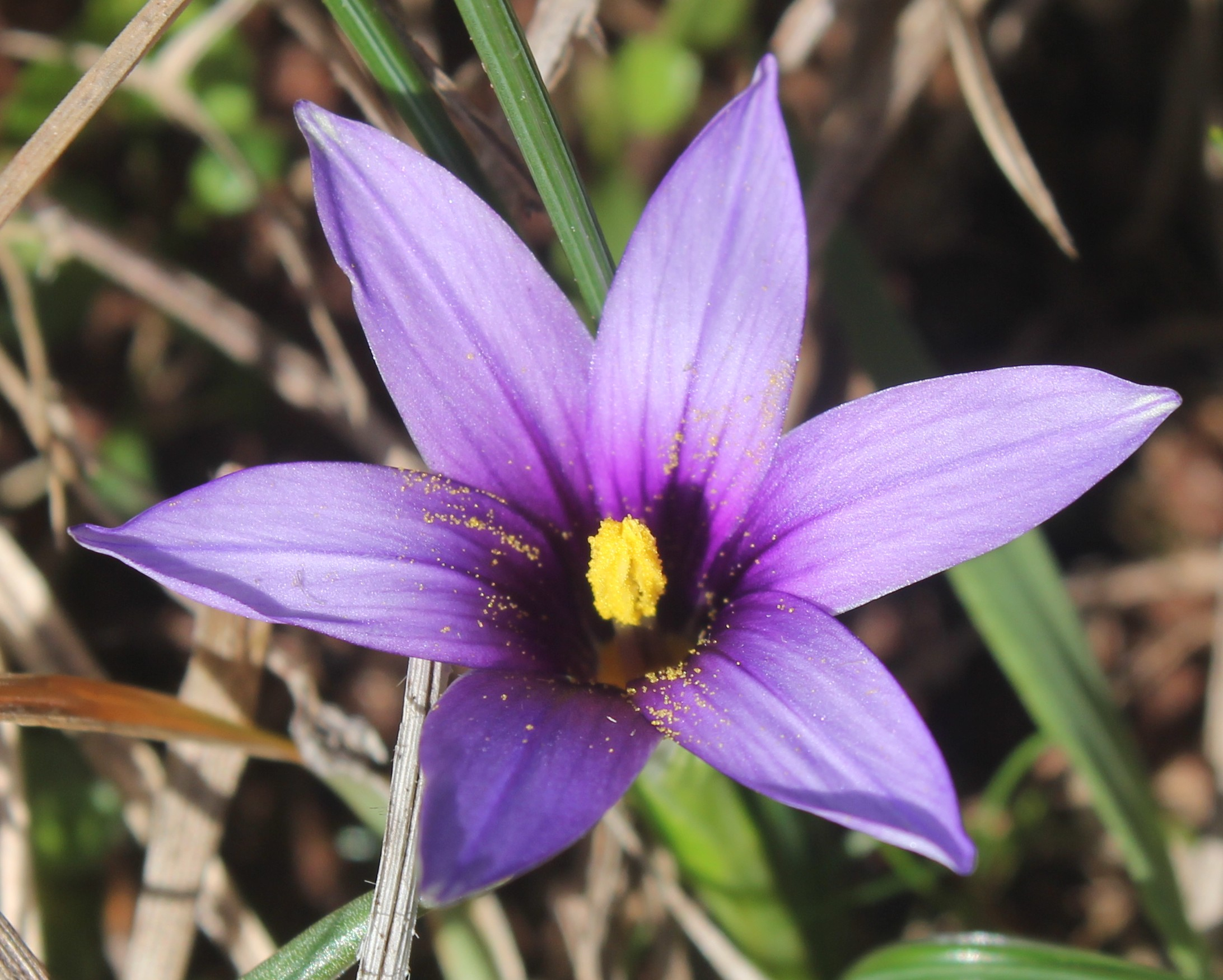 Romulea linaresii subsp. graeca